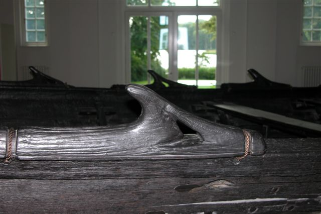 Nydam Boat, Gottorp Castle, Sleswig